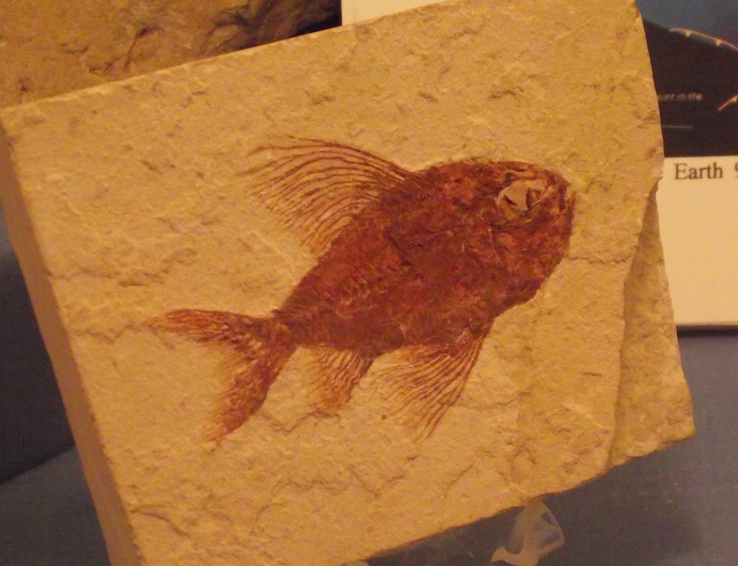 Pseudoberyx syriacus fossil on display at the San Diego County Fair, California, USA.